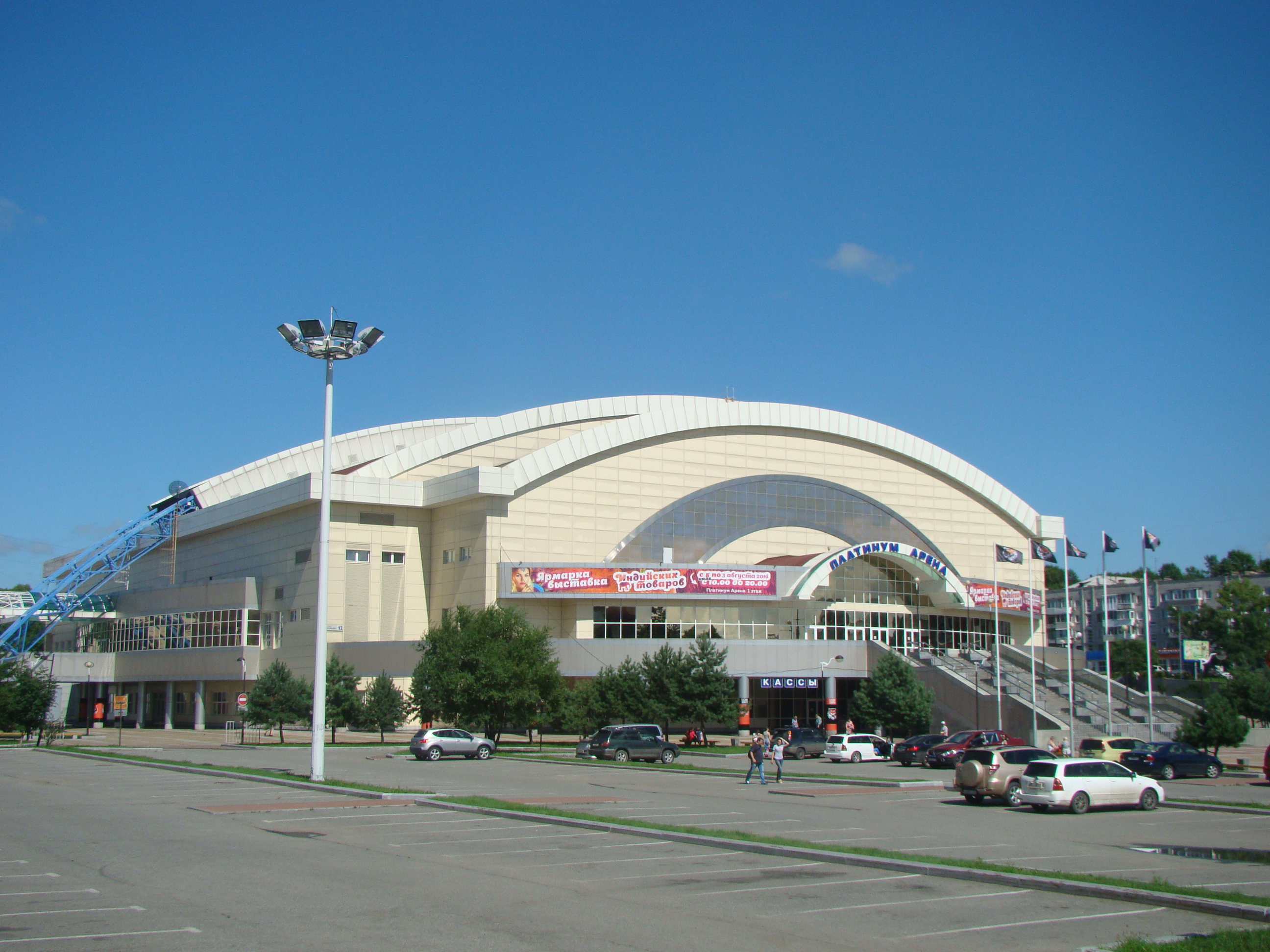 Platinum Arena